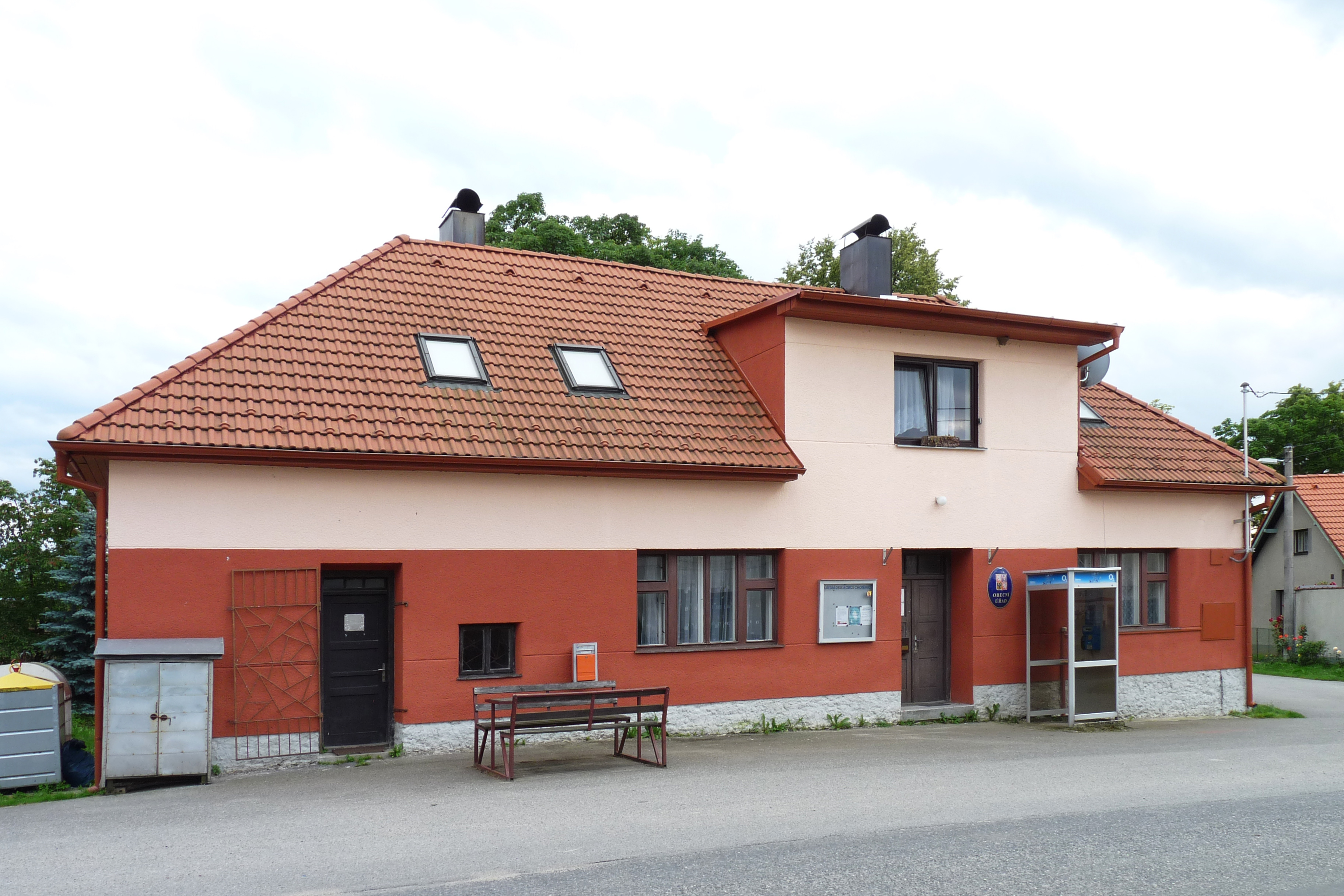 Municipal office building in the municipality of Chotěmice, Tábor District, South Bohemian Region, Czech Republic. Česky: Budova obecního úřadu v obci Chotěmice v okrese Tábor.